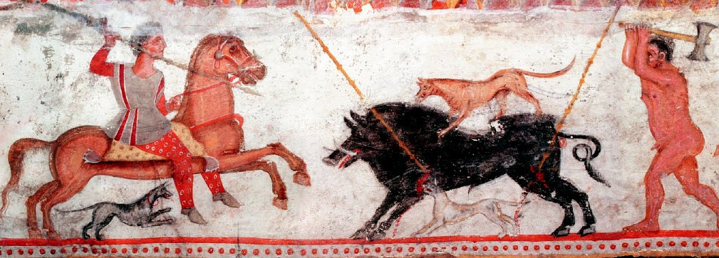 Mythical hunting scene from the kurgan near the village of Aleksandrovo, Bulgaria: a section of ancient frescoes (mid-4th century BC)